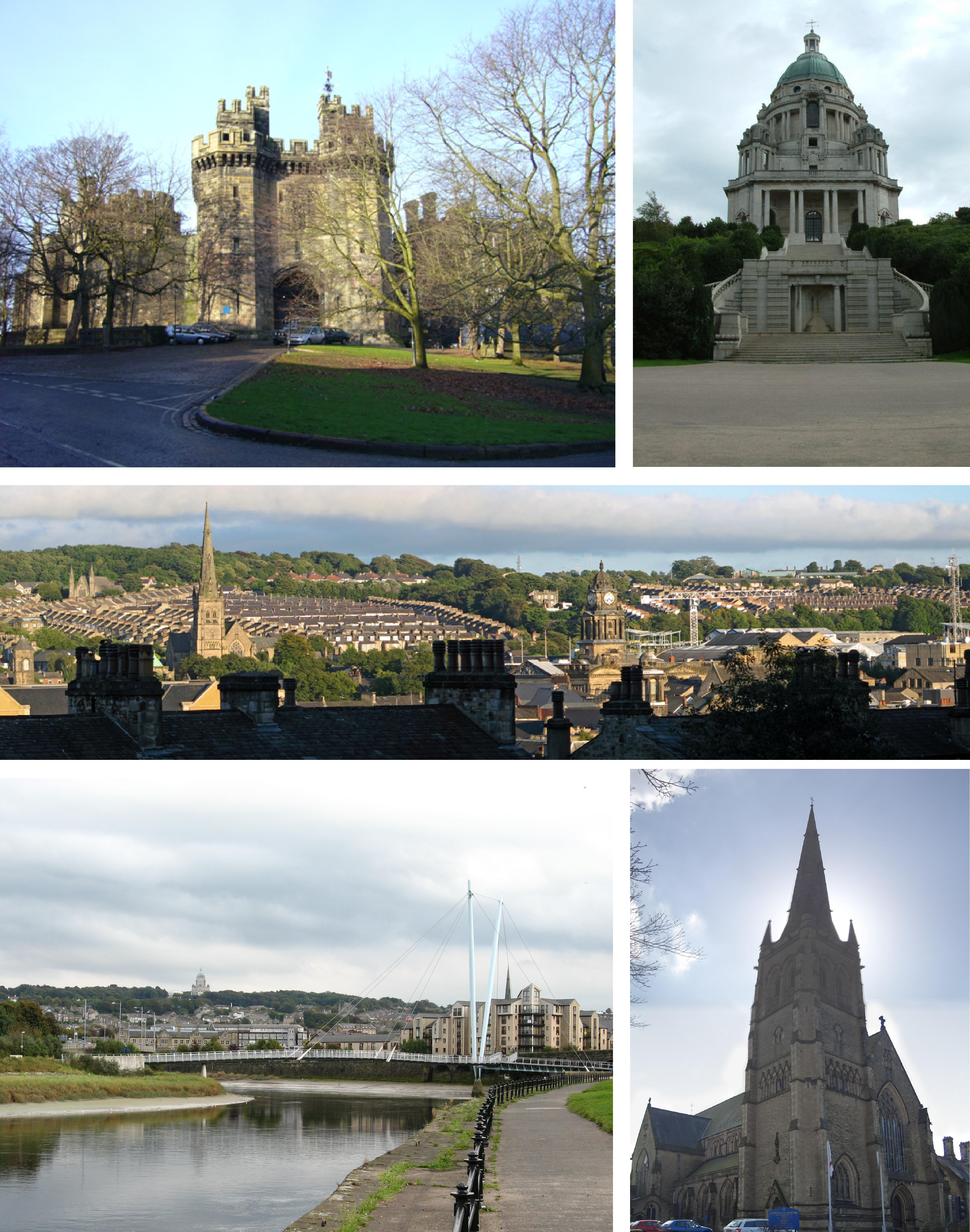 Montage of several images of Lancaster from Wikipedia Commons